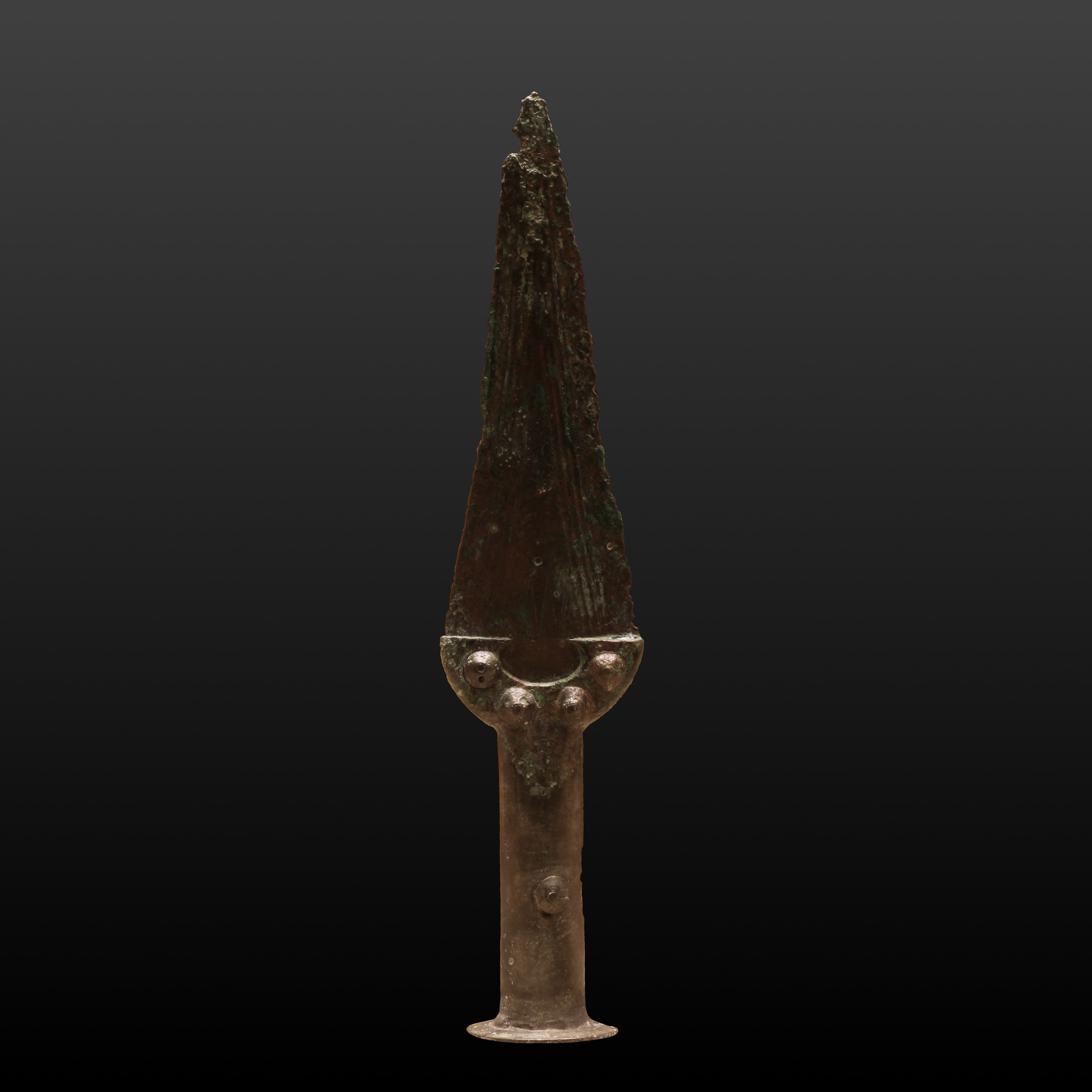 Dagger, bronze, ca. 1800 BCE. Found at the Bourdonette in Lausanne. Lent by the Musée cantonal d'archéologie et d'Histoire. On display at the Musée Historique de Lausanne.